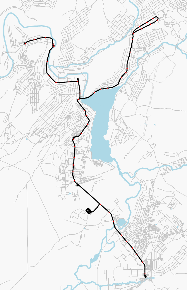 Zlatoust tram system, rendered using OSM data. This map may be incomplete, and may contain errors. Don't rely solely on it for navigation.